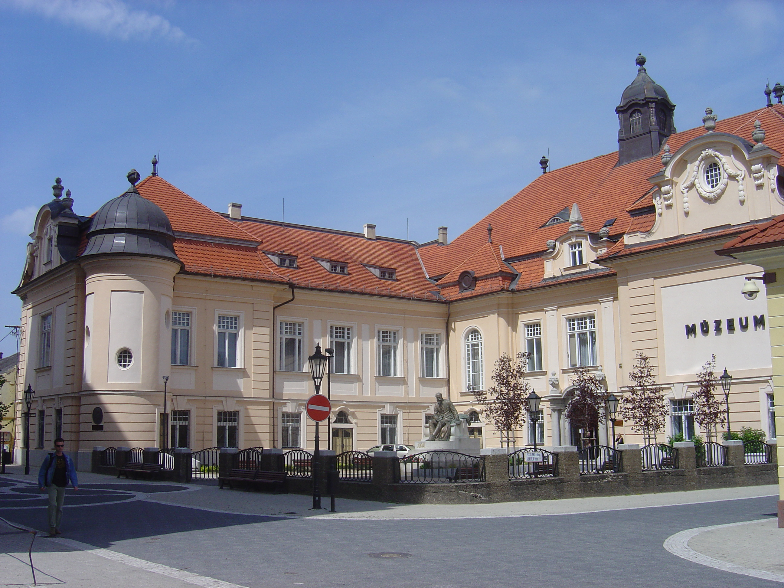 Komárno, Slovakia